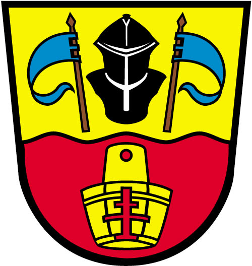 Old coat of arms of Rettingen in Tapfheim